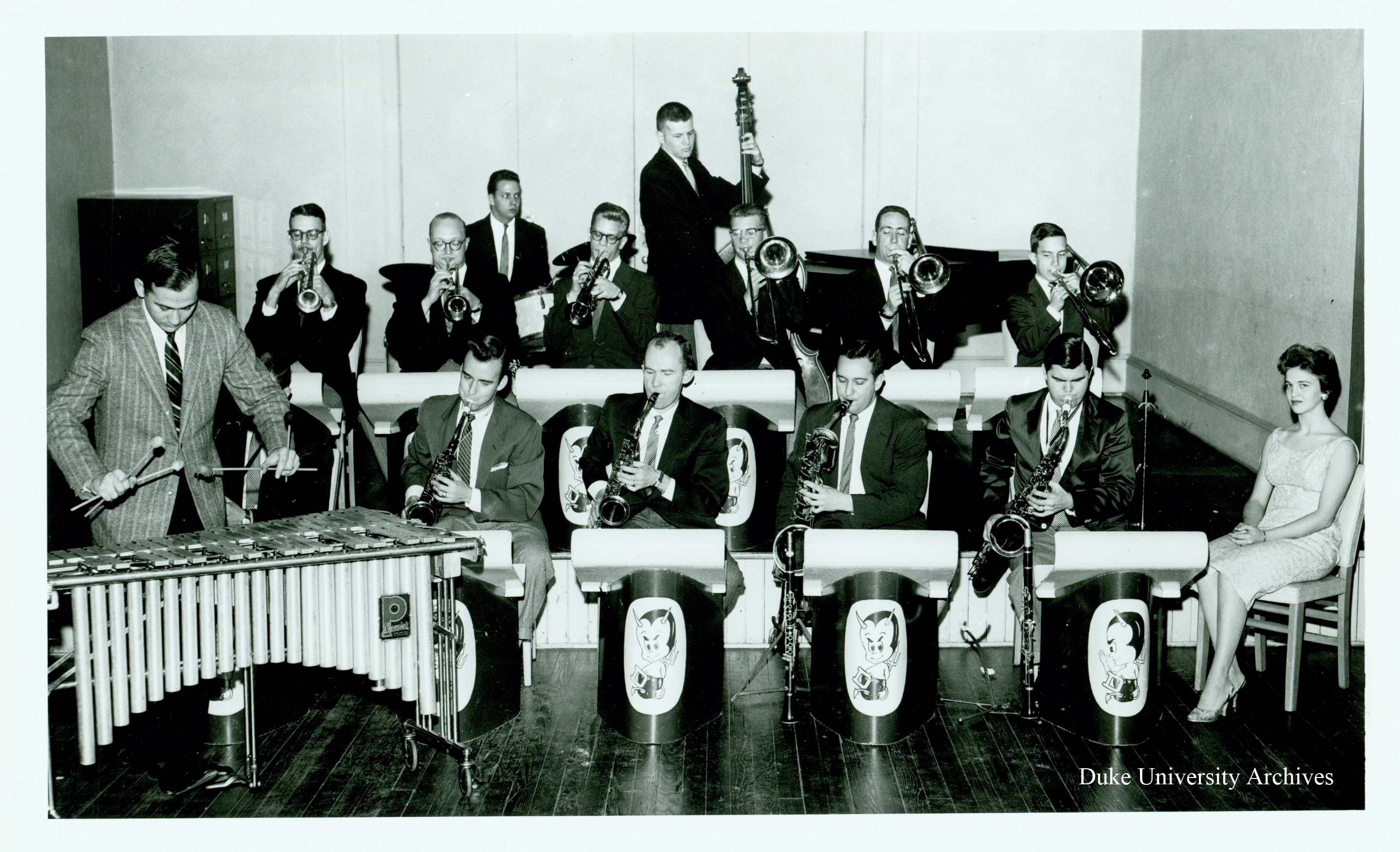 The Duke Ambassadors (1958); Courtesy Duke University Archives